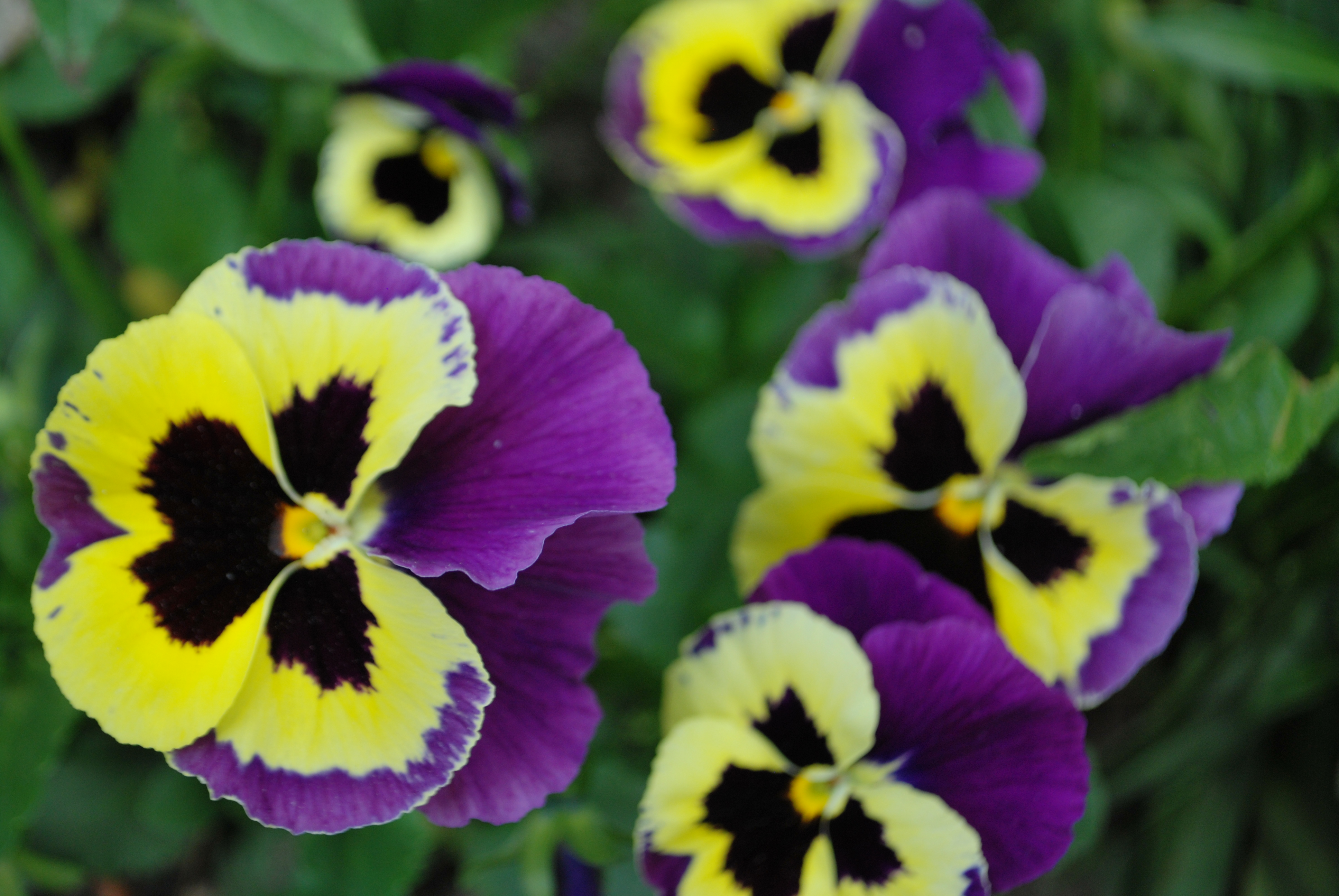 Plants in Rogačevo, Macedonia